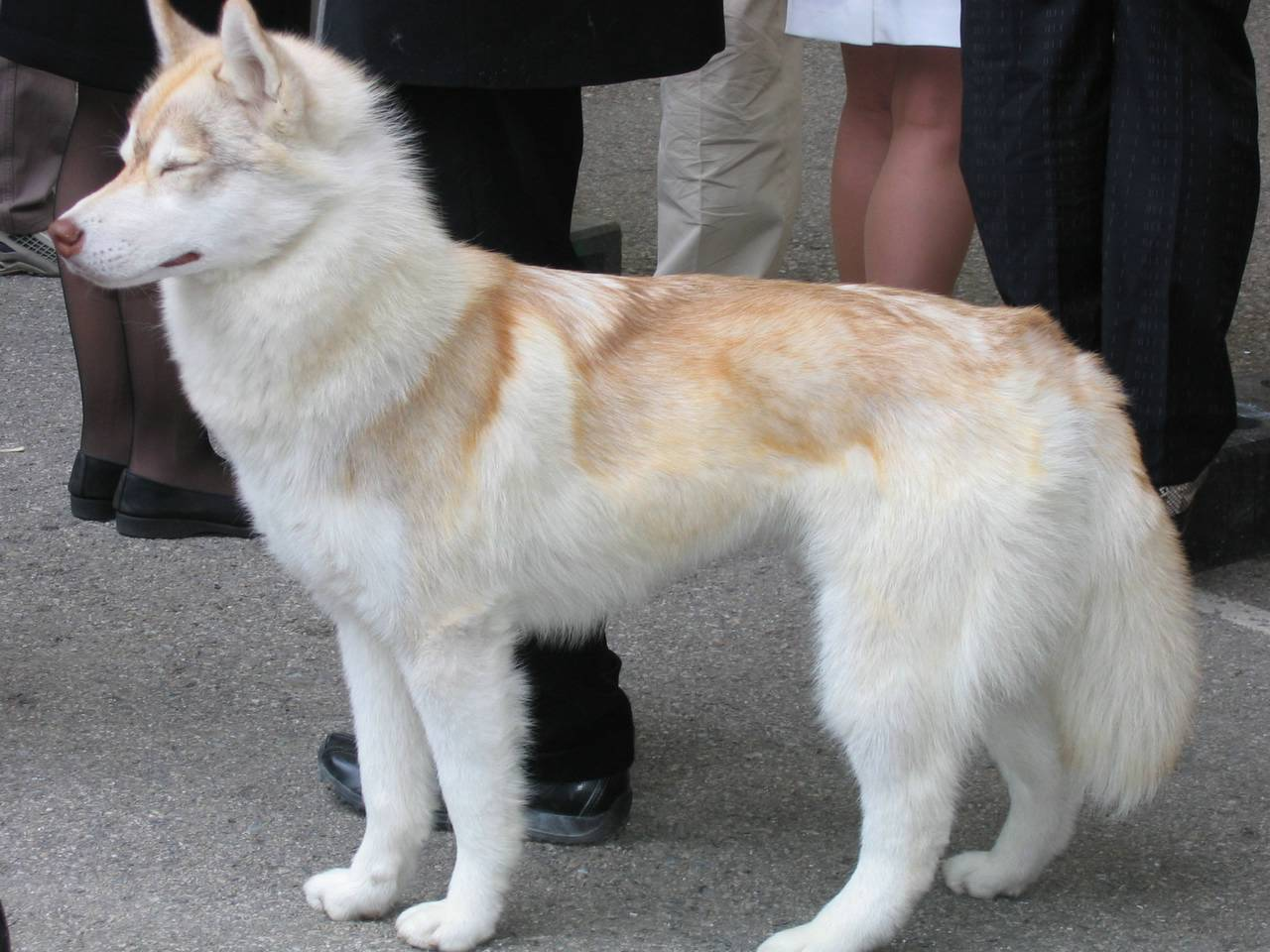 A light red or copper-coloured Siberian Husky.